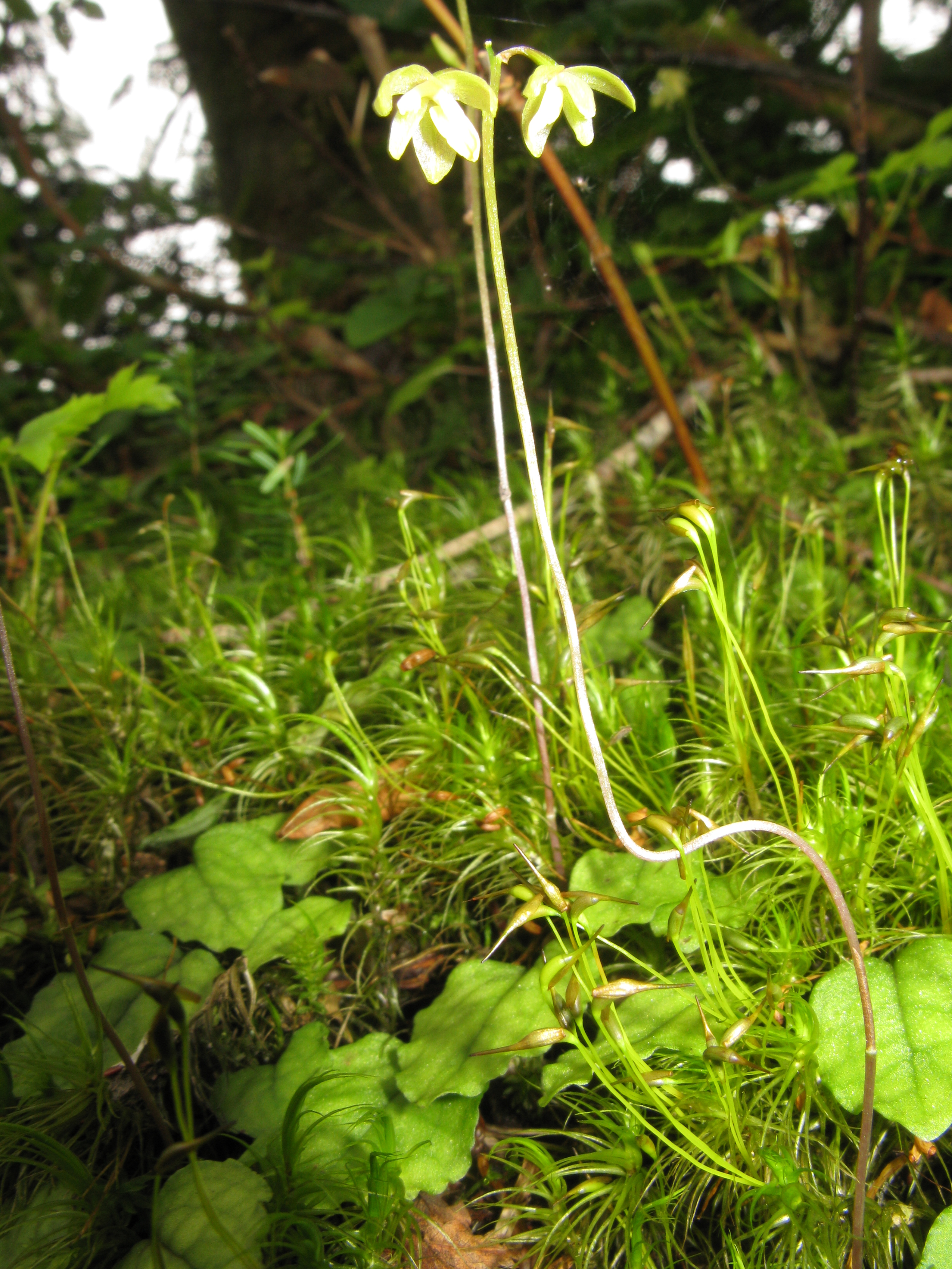 Ephippianthus schmidtii, Mount Hayachine, Iwate pref., Japan